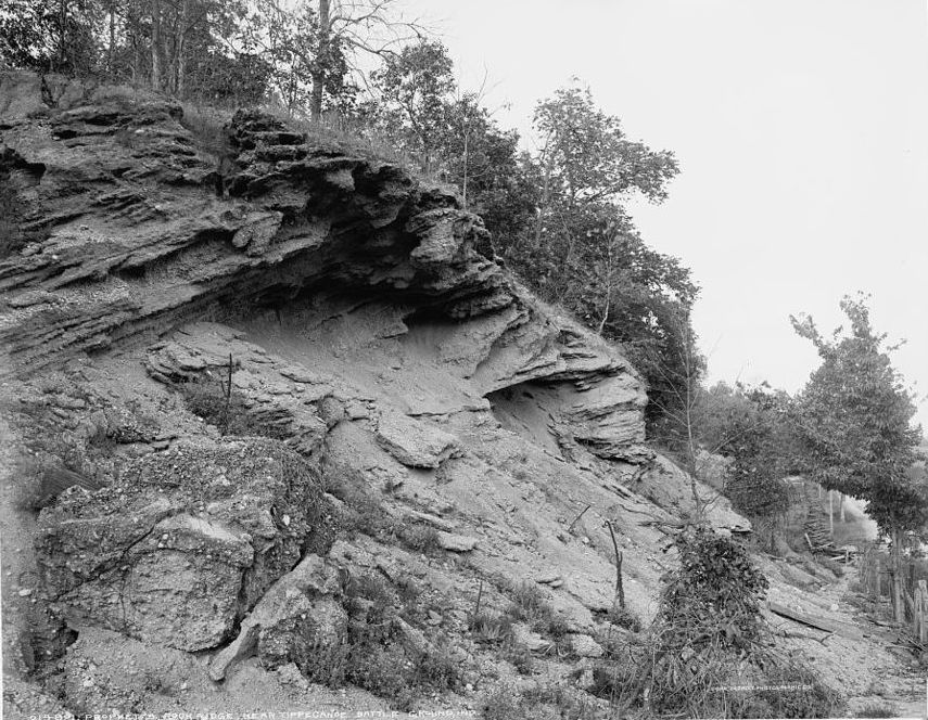 A view of Prophet's Rock, a stone outcropping in rural Tippecanoe County, Indiana near Battle Ground. The Shawnee leader Tenskwatawa ("The Prophet"), brother of Tecumseh, sang from this site to encourage the warriors of Tecumseh's Confederacy during the fight against soldiers under William Henry Harrison at the Battle of Tippecanoe, November 7, 1811.